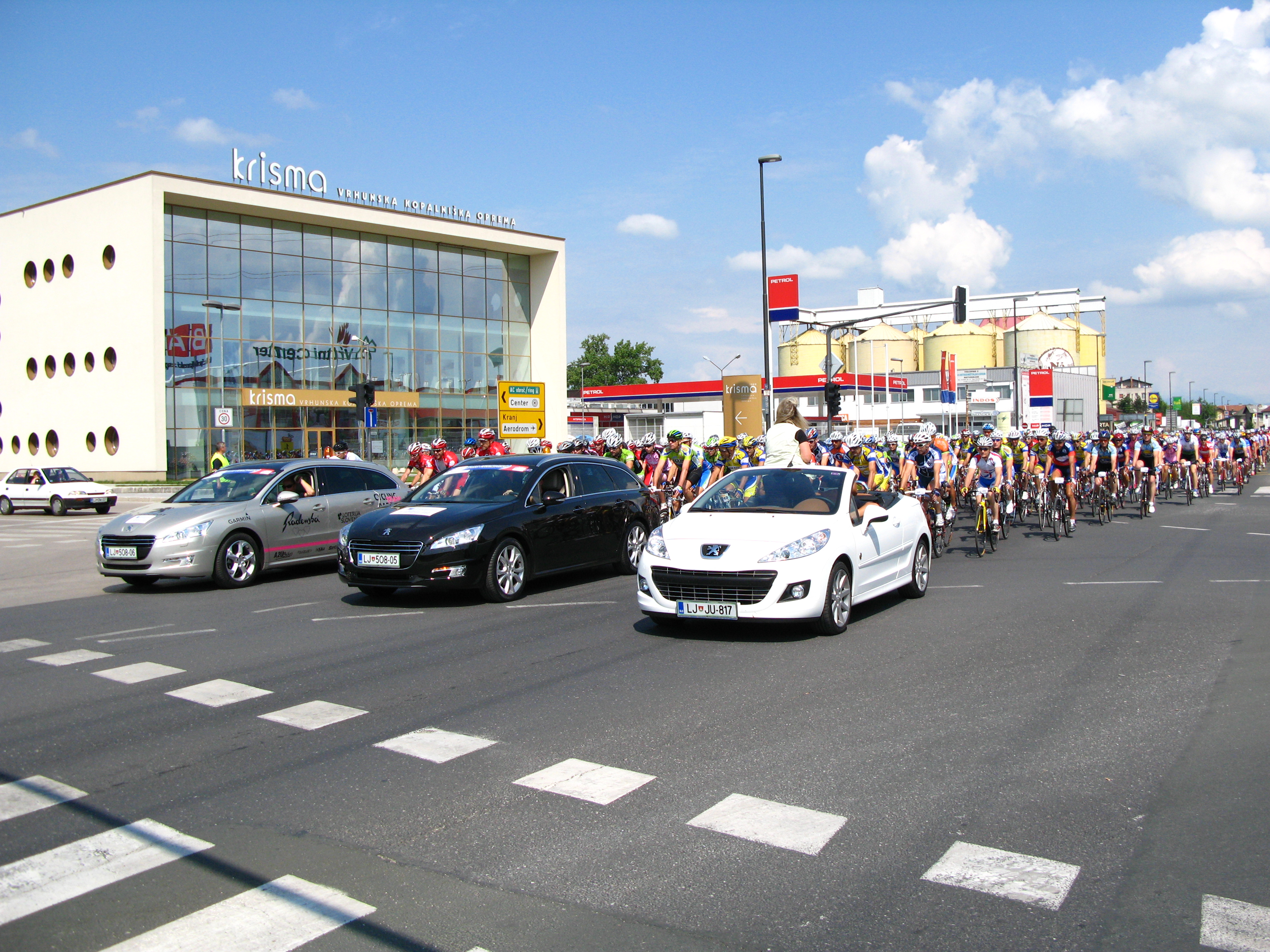 Maraton Franja (2011), Slovenia.